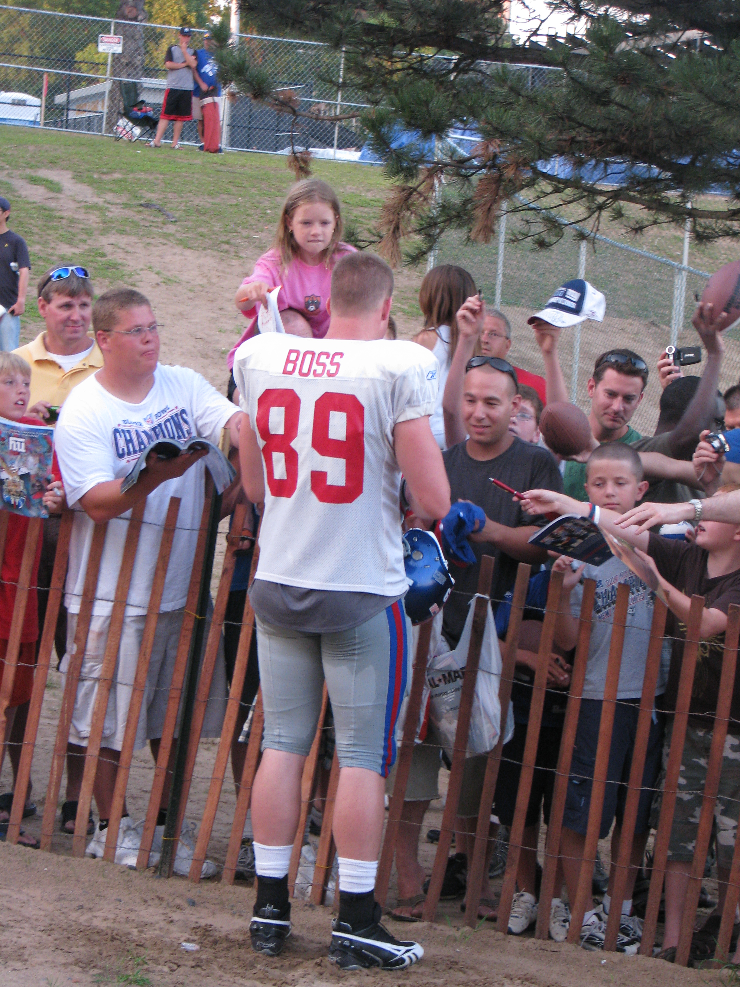 Kevin Boss signing autographs at Giants Training Camp in Albany, NY.